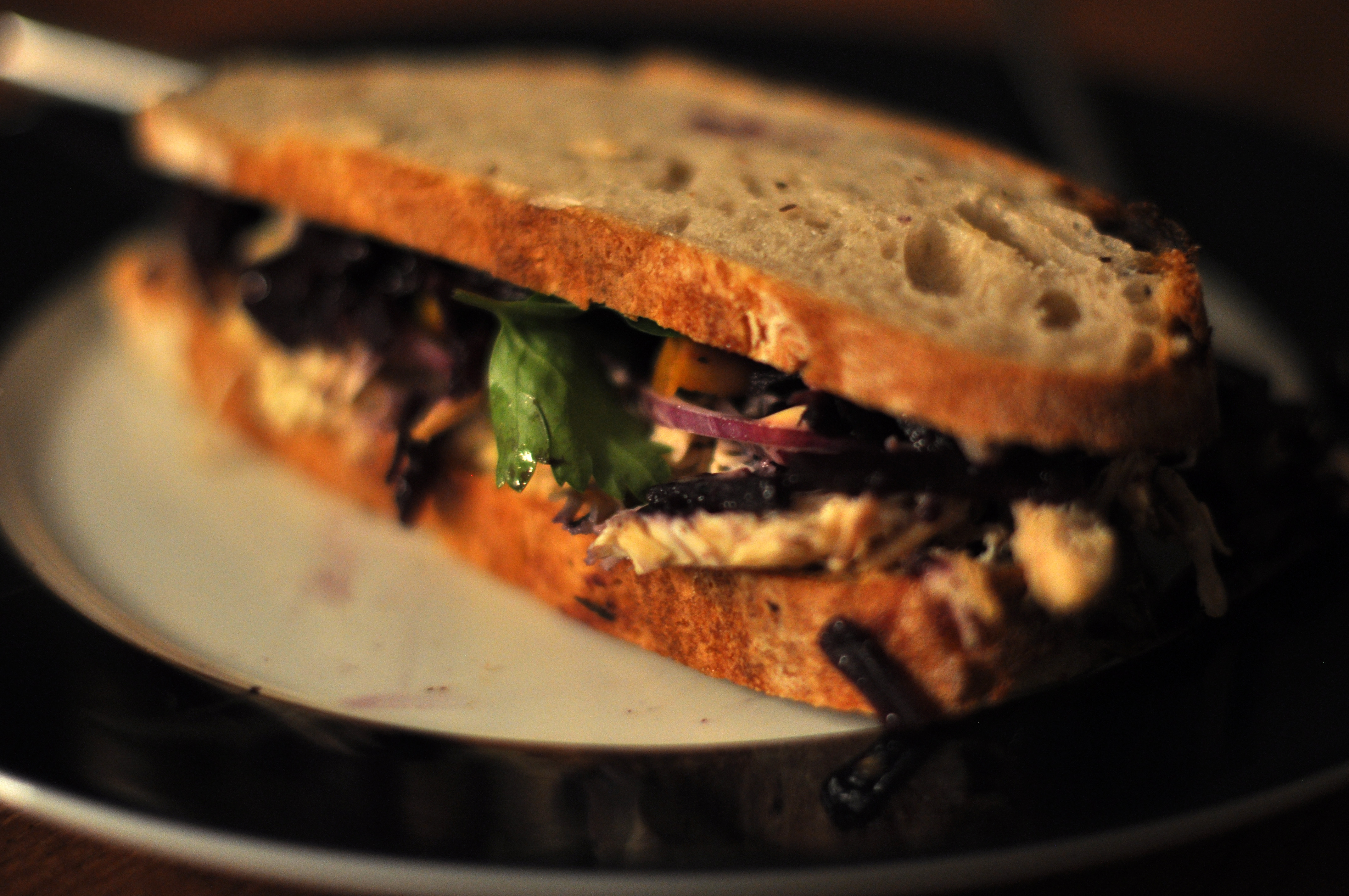 Danish sandwich with chicken, apple, red cabbage and mustard.